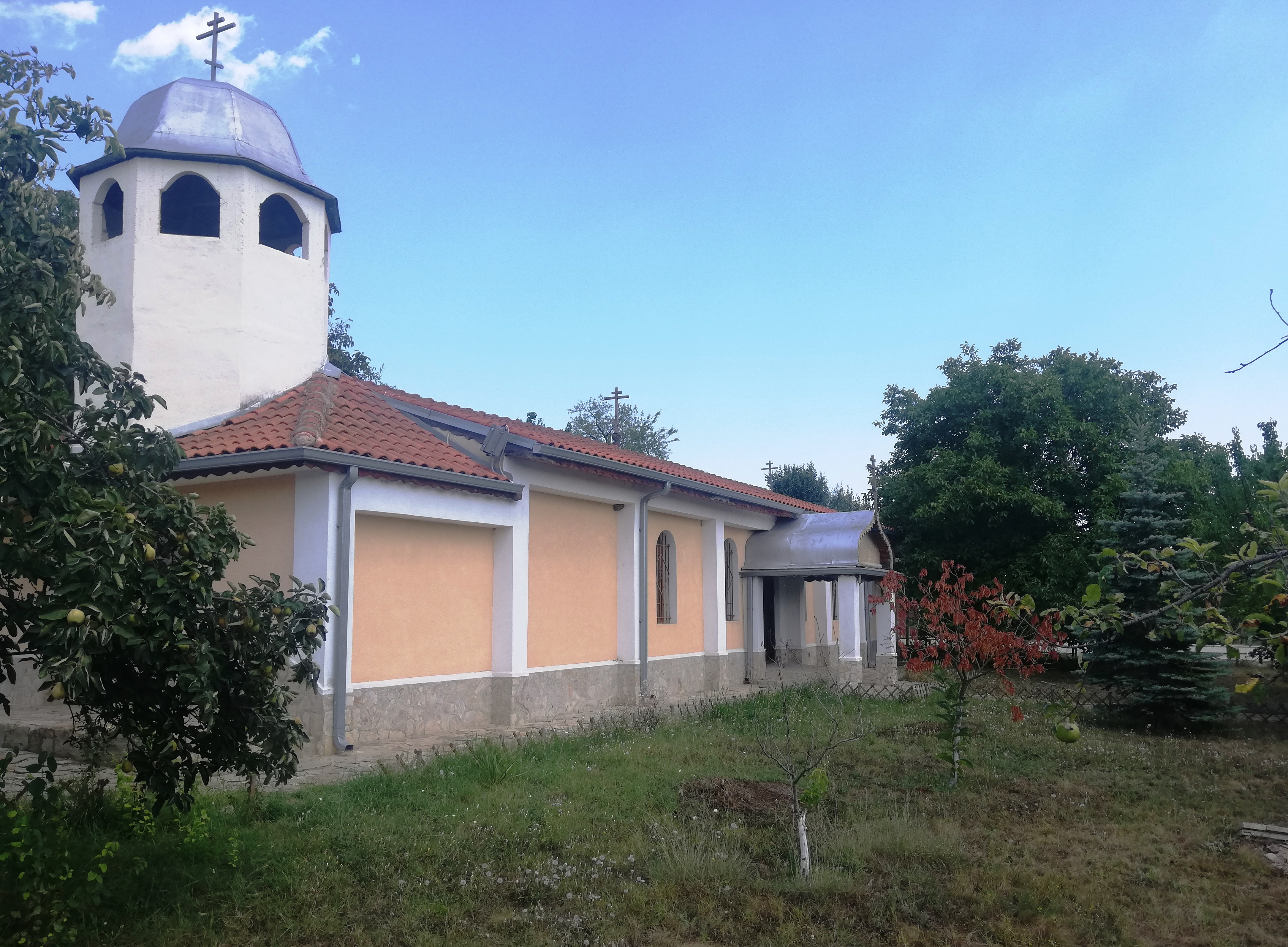 Russian Old-Orthodox Church In Kazashko, Varna Province